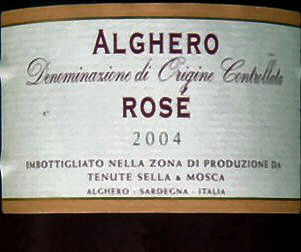 Label of a rosé wine from Sardinia.